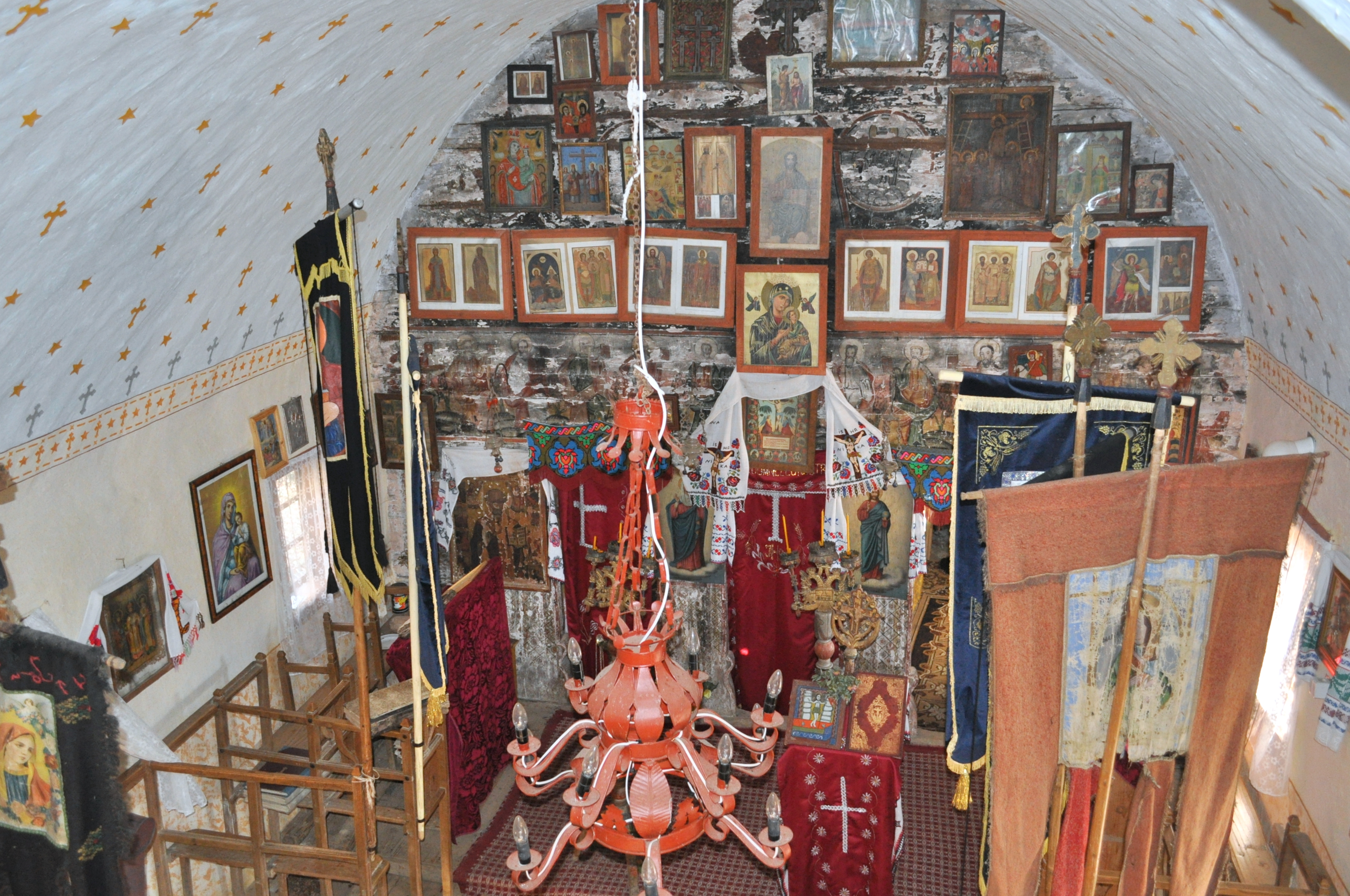 Wooden church in Dealu Geoagiului, Alba county